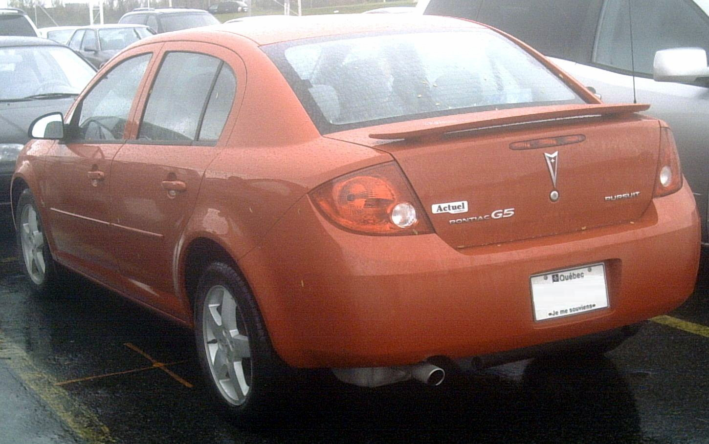 2006 Pontiac G5 Pursuit photographed in Montreal, Quebec, Canada.